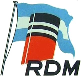 Logo of the former Rotterdamse Droogdok Maatschappij RDM